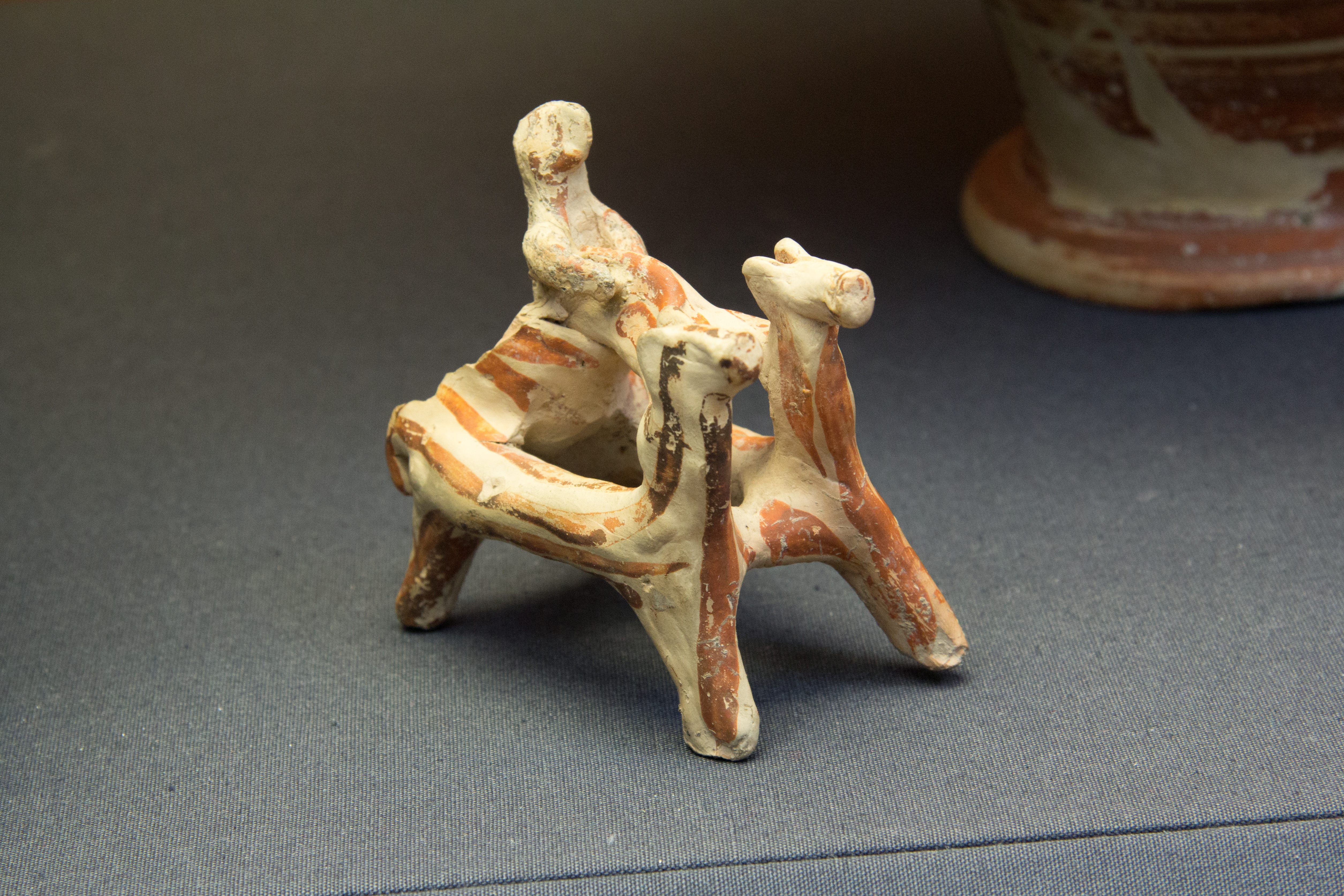 Mycenaean terracotta group of a man in two-horse chariot, about 1200 BC (LH IIIb2-c1). Found in Tomb 5, Ialysos, Rhodes. British Museum, GR 1870.10-8.126. BM Cat Terracottas B2.